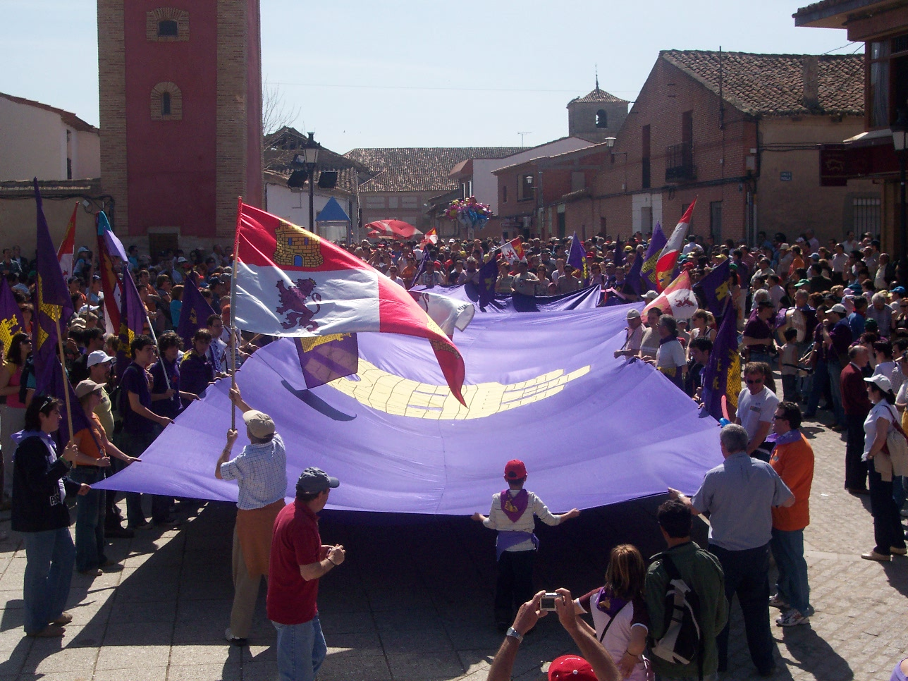 Giant flag of Castile (purple version) in the Grand Plaza of Villalar de los Comuneros during a celebration of the comuneros on April 23, 2007.